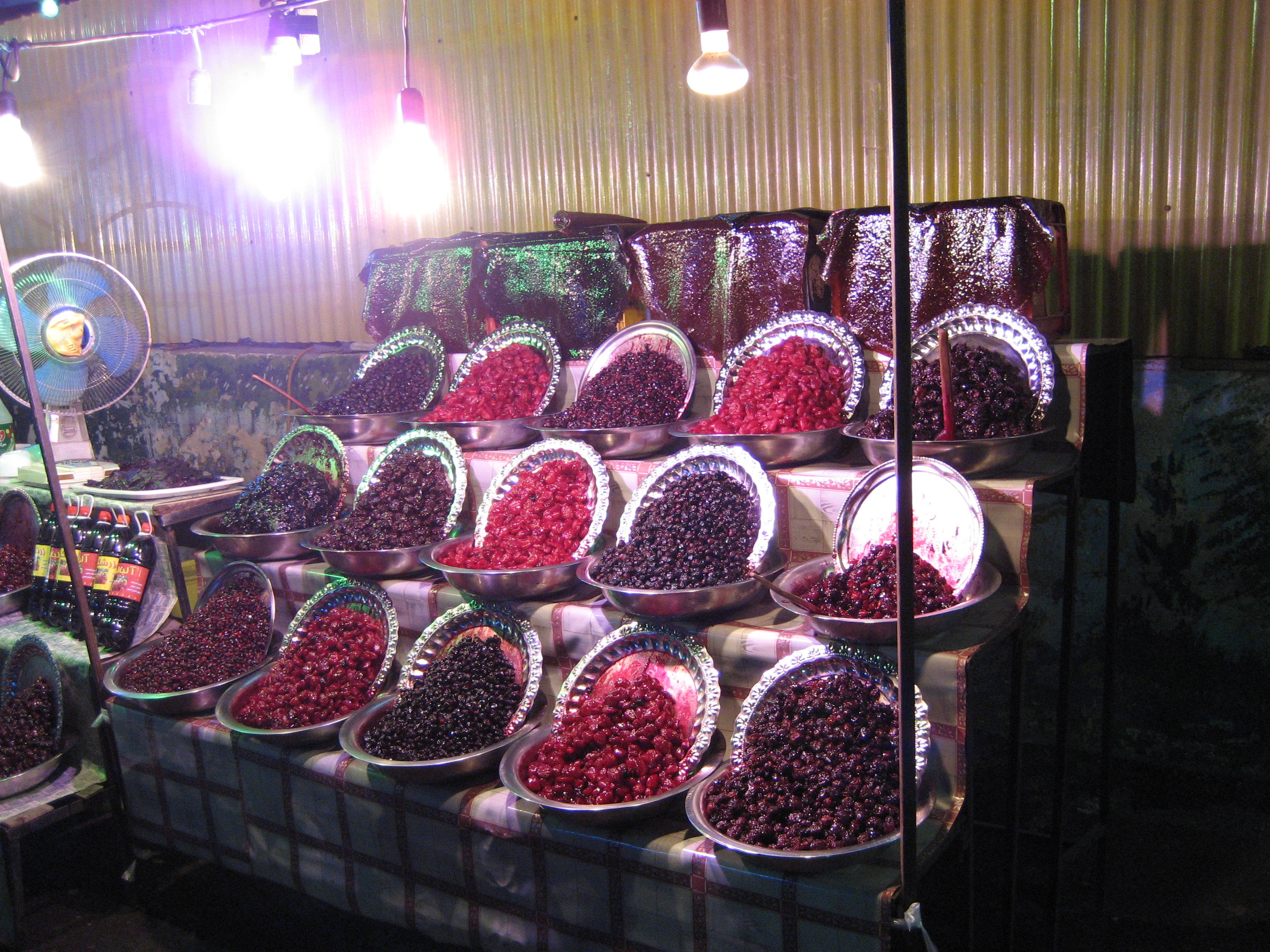 Persian sour snacks, Farahzad neighbourhood, Tehran